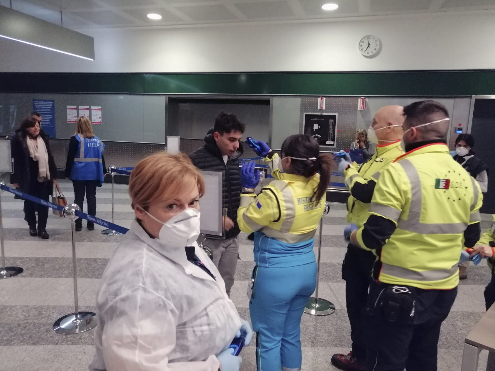 Milano, 5 febbraio 2020 – Volontari di protezione civile impegnati nei controlli sanitari nell'aeroporto "Milano Malpensa".